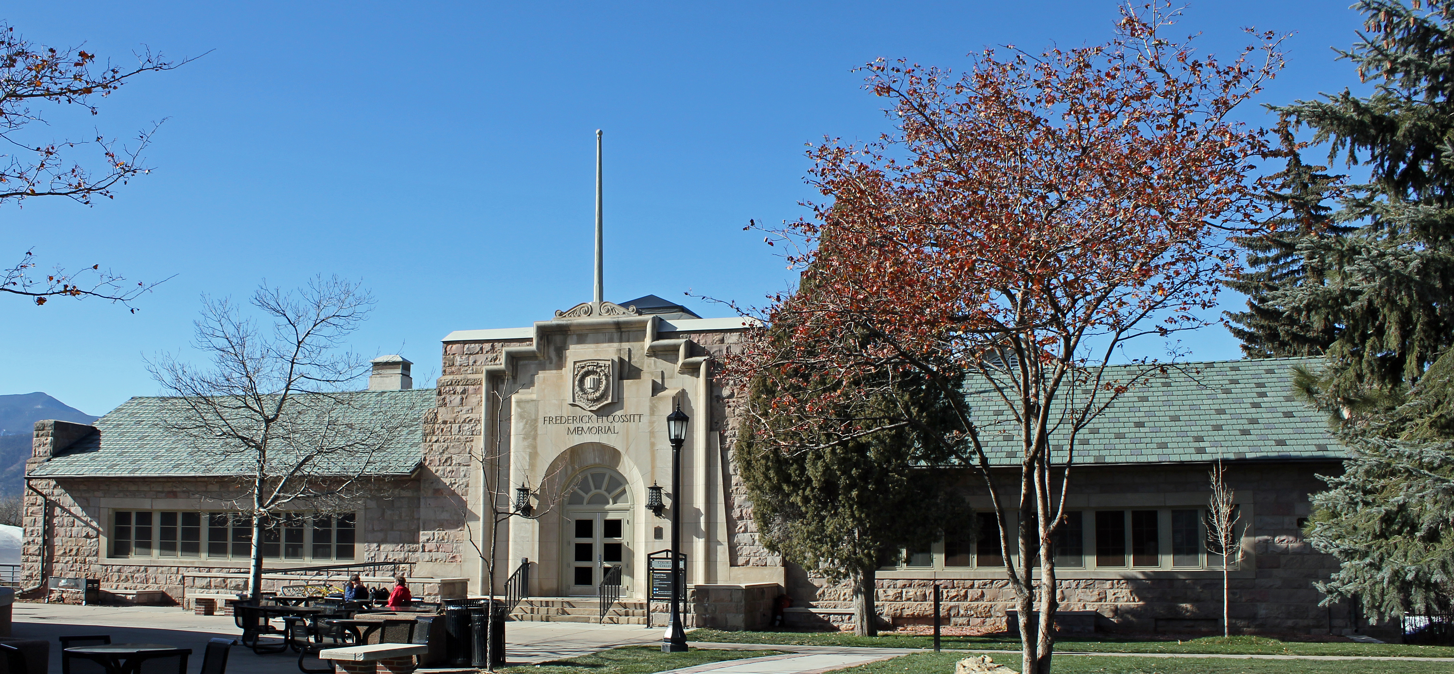 Frederick H. Cossitt Memorial Hall, located on the Colorado College campus in Colorado Springs, Colorado. The property is listed on the National Register of Historic Places.